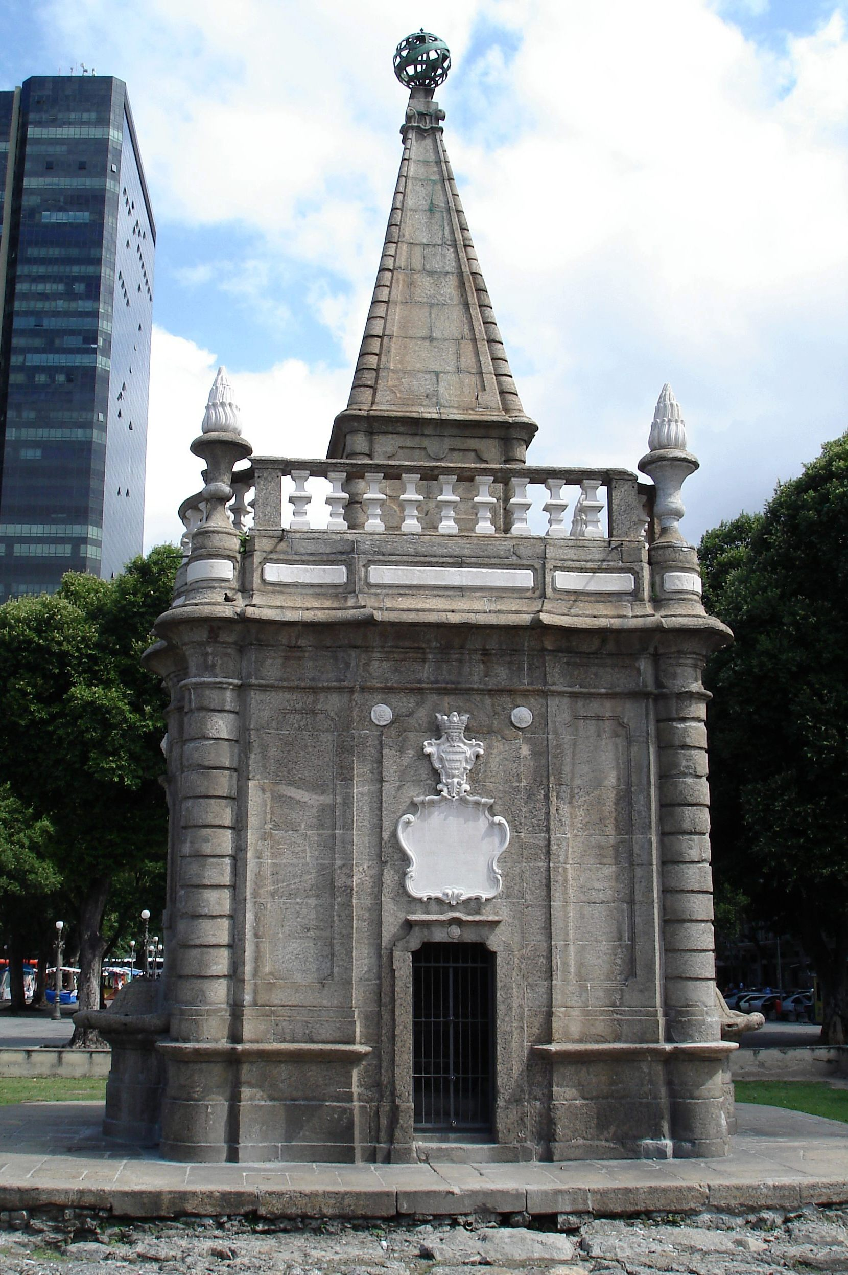 Pyramid Fountain, builted in augen gneiss by Mestre Valentin, 15 Square, Rio de Janeiro City, Brazil.